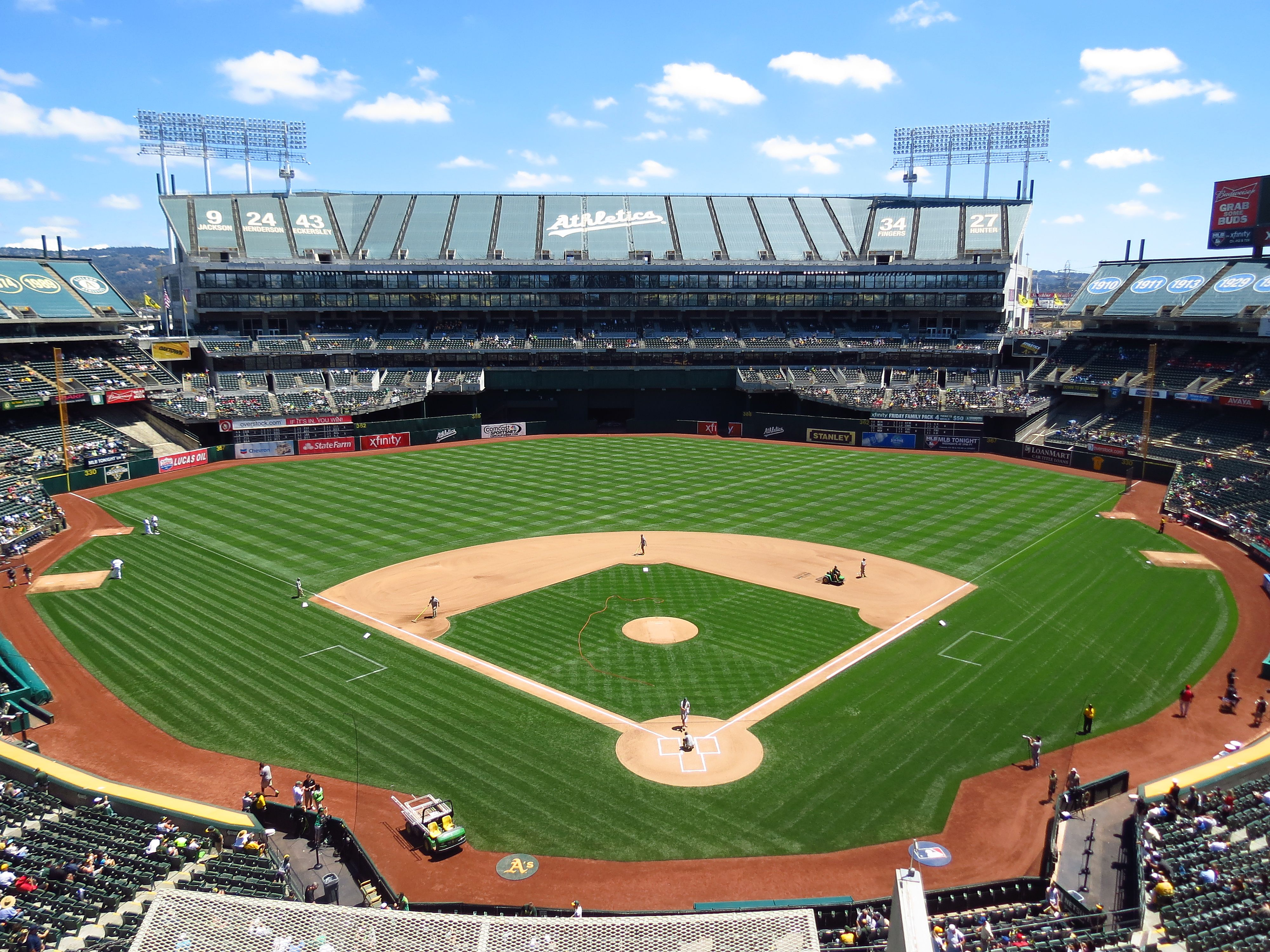 Cincinnati Reds at Oakland Athletics